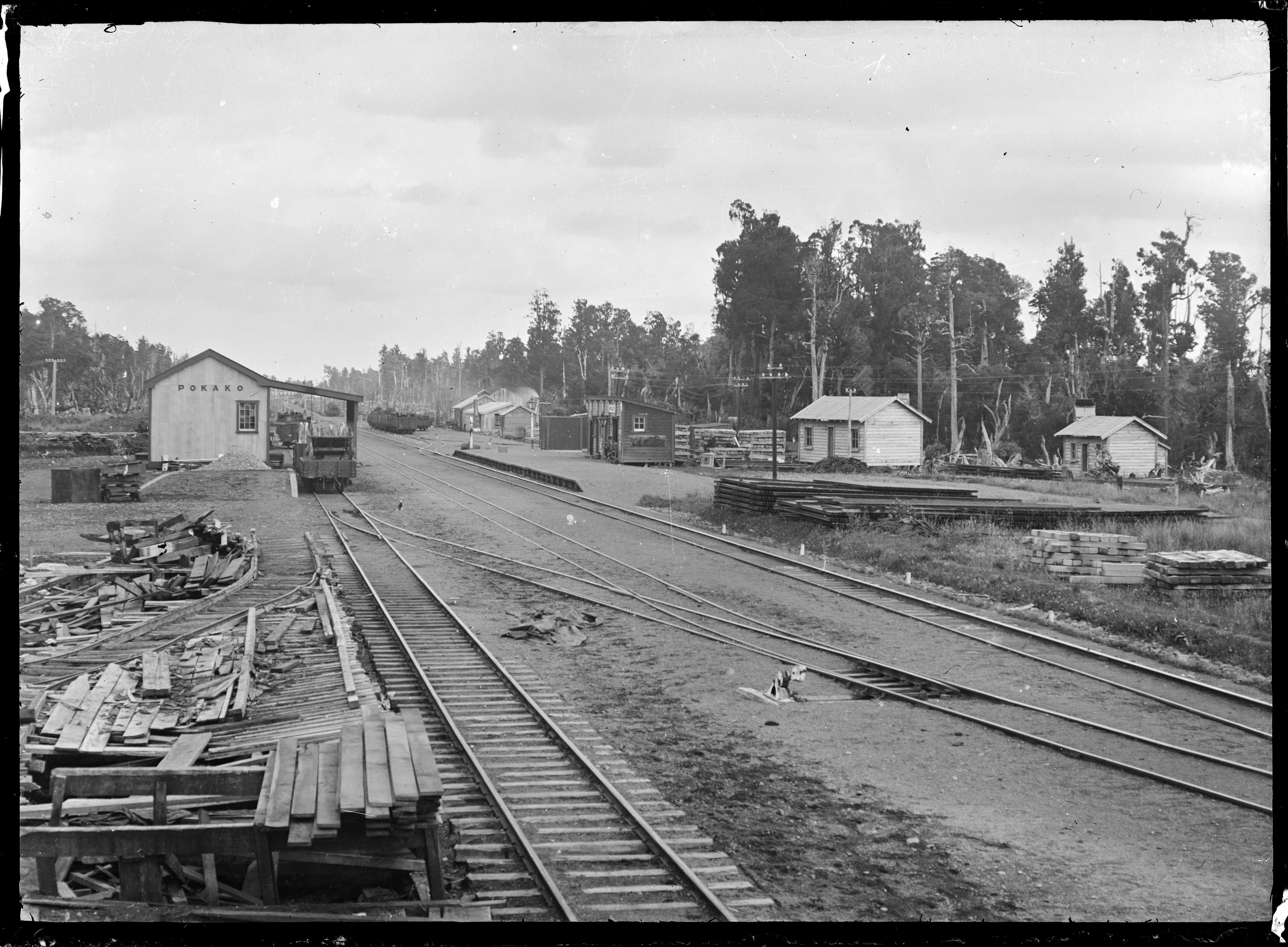 Pokaka Railway Station and railway yards. There are several railway huts alongside the line, and piles of sawn timber. Photographed by Albert Percy Godber circa 1924.